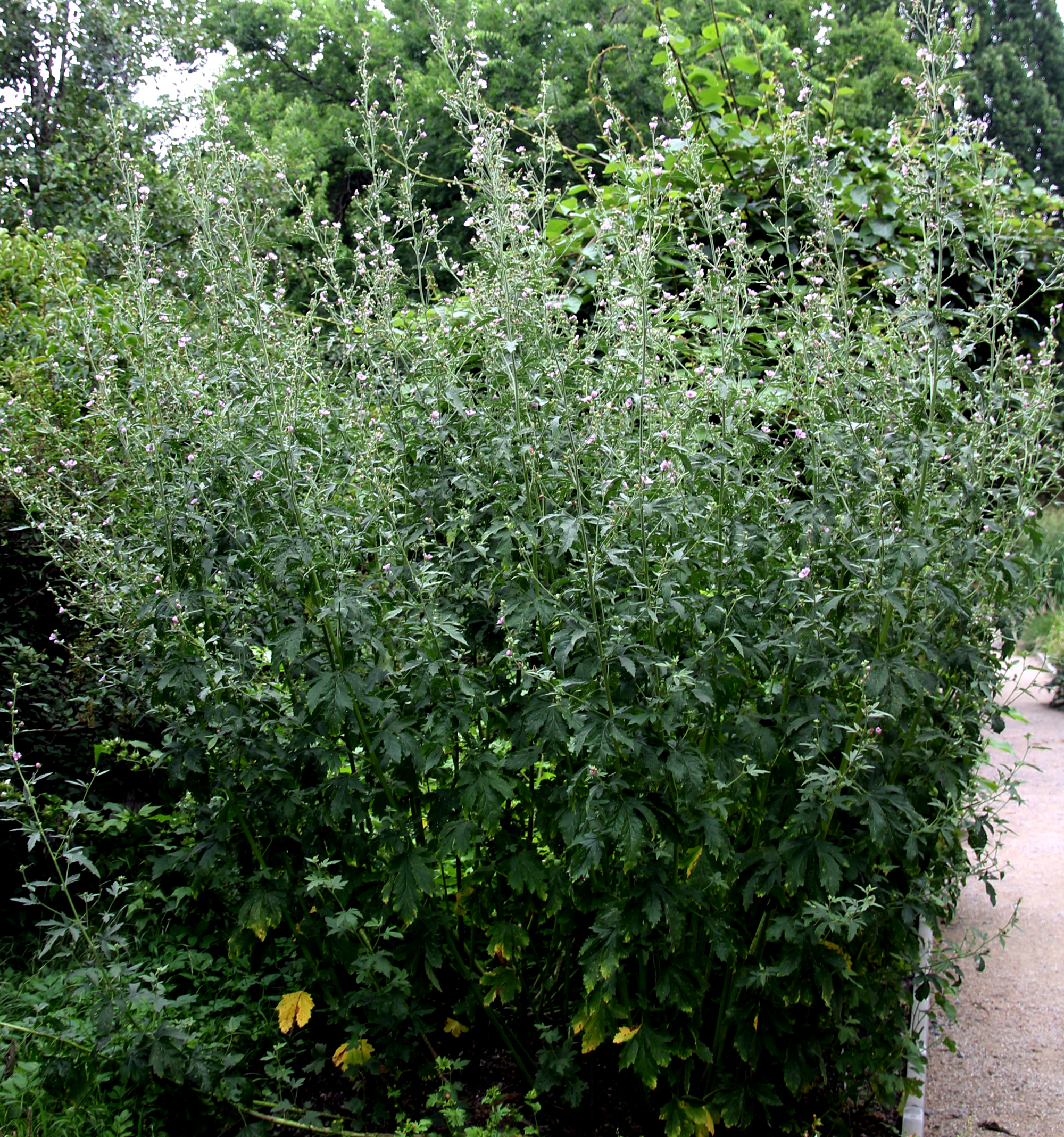 Plant Althaea cannabina or Palm-leaf Marshmallow, whole plants from the Botanical Gardens of Charles University, Prague, Czech Republic